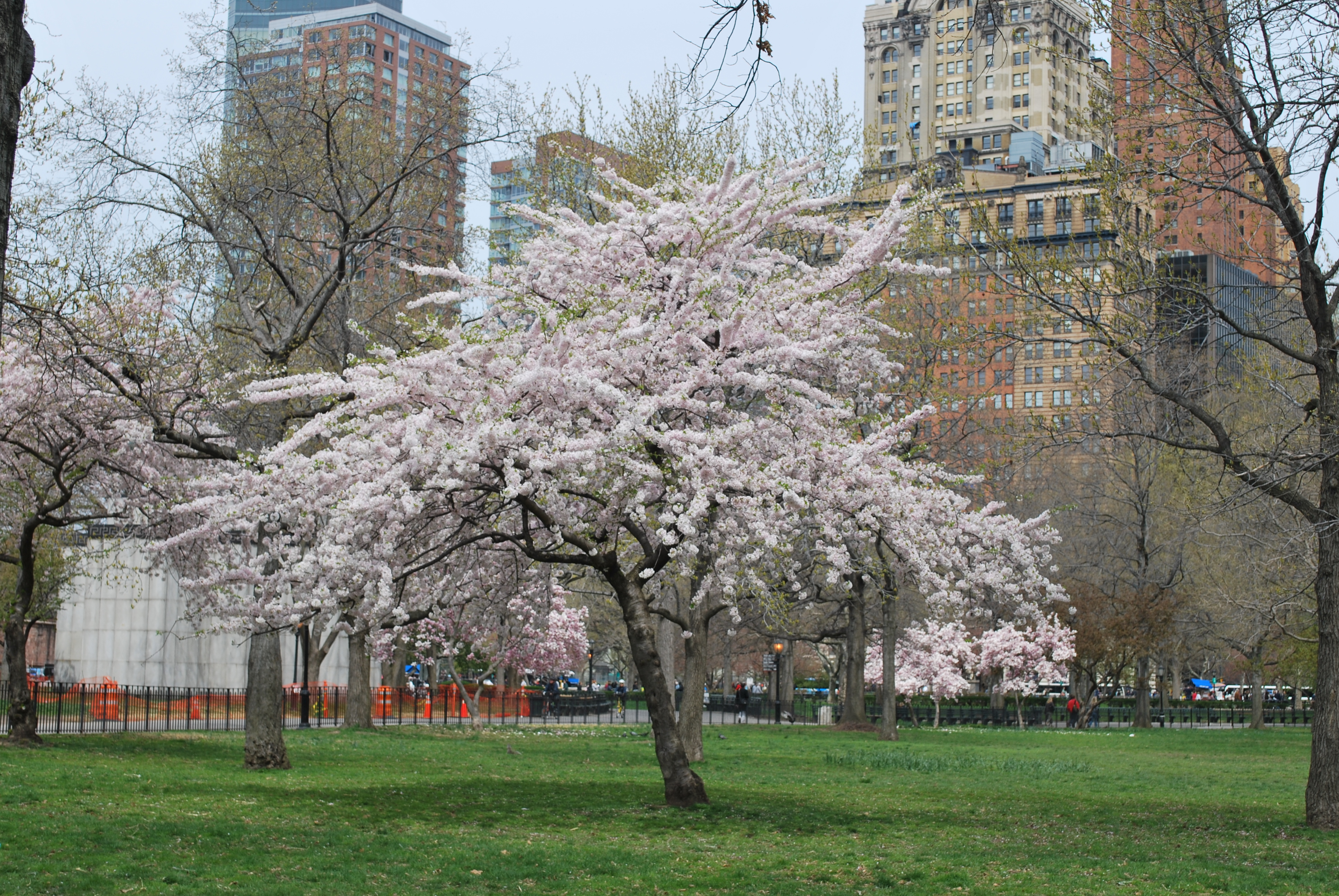 Battery Park, Manhattan